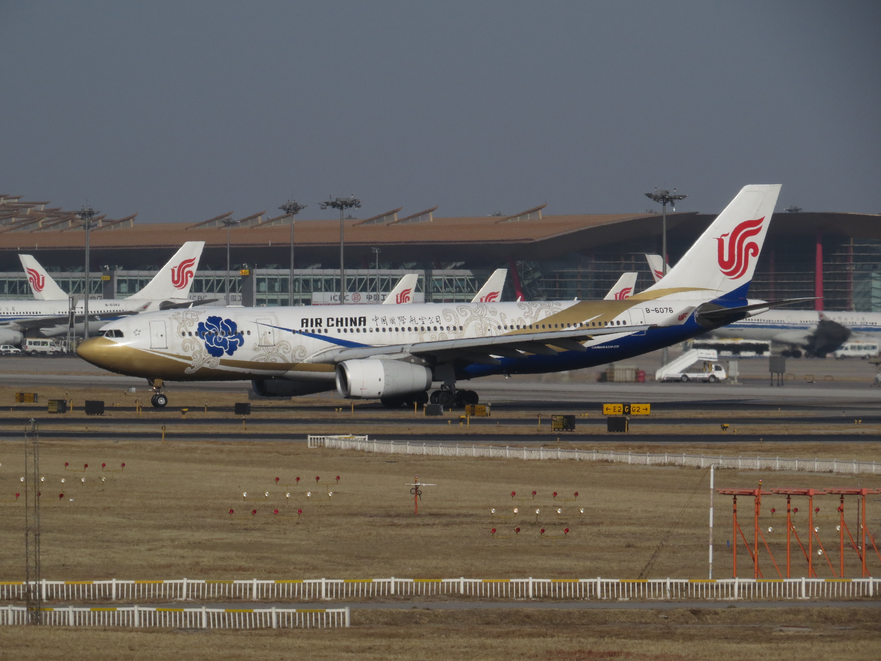 "Capital Pavilion" logojet taxiing to 36R as CCA109 to Hong Kong.